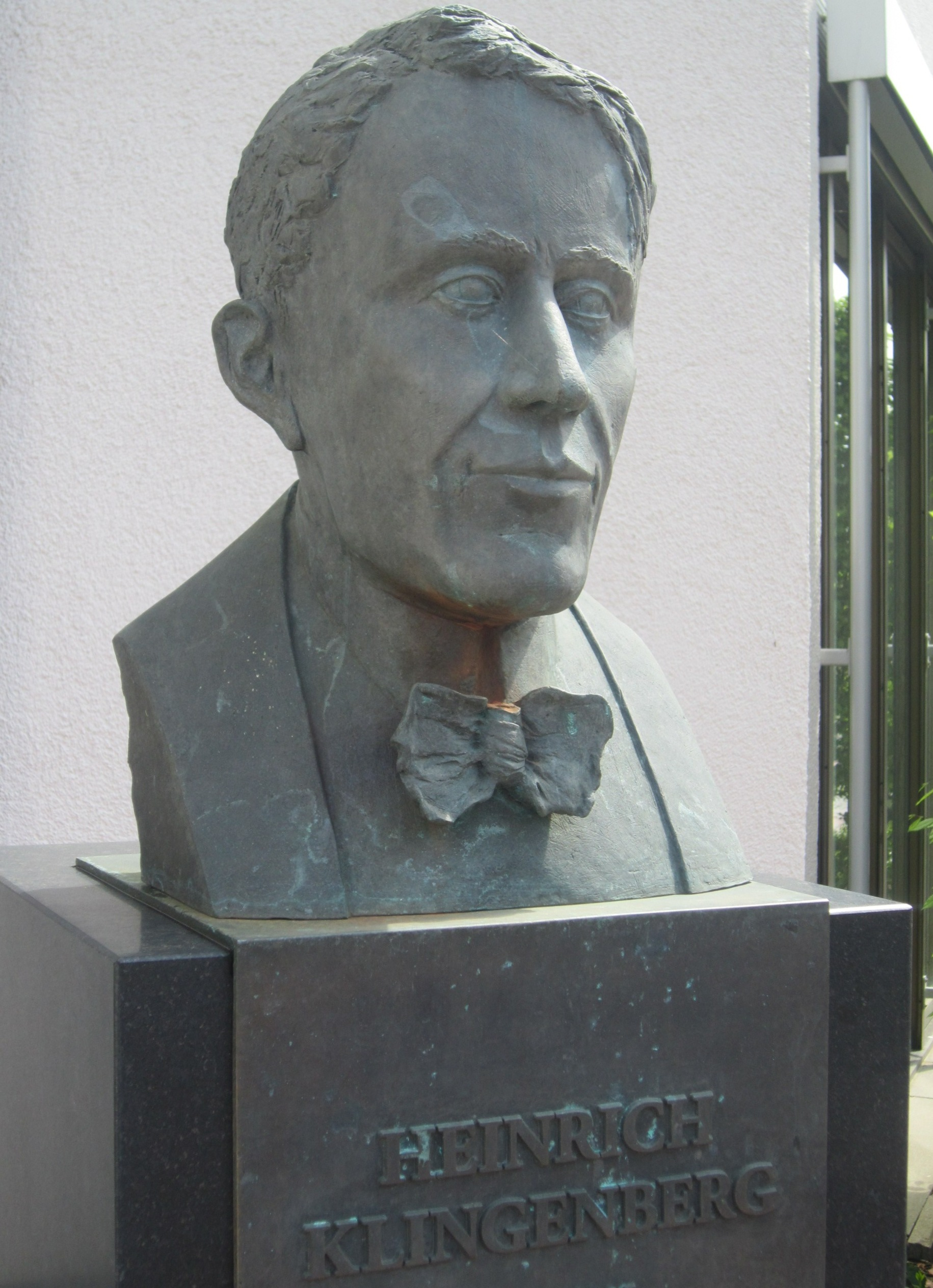 Plastic by Albert Bocklage, showing Heinrich Klingenberg in Visbek